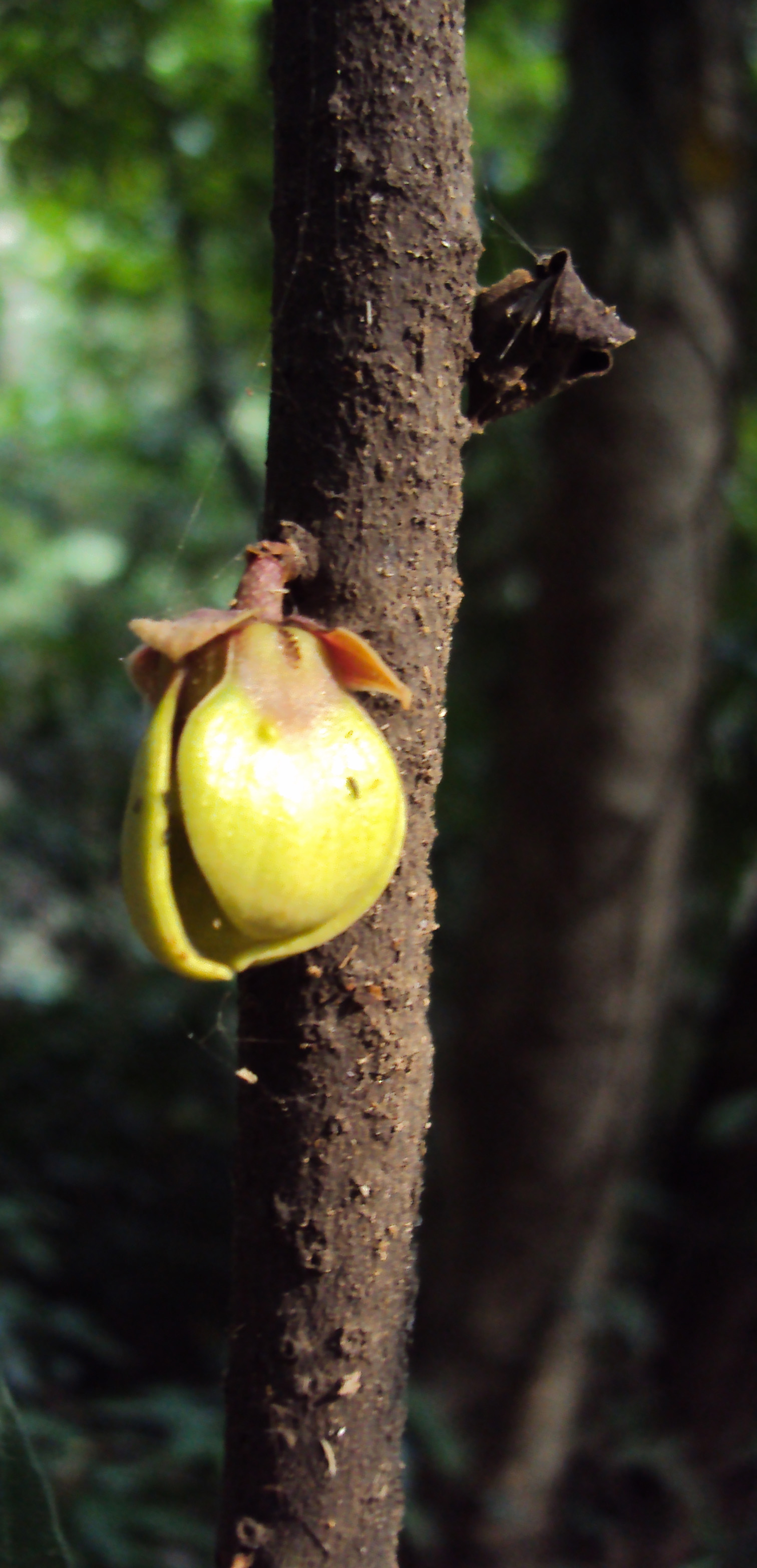 Goniothalamus wynaadensis